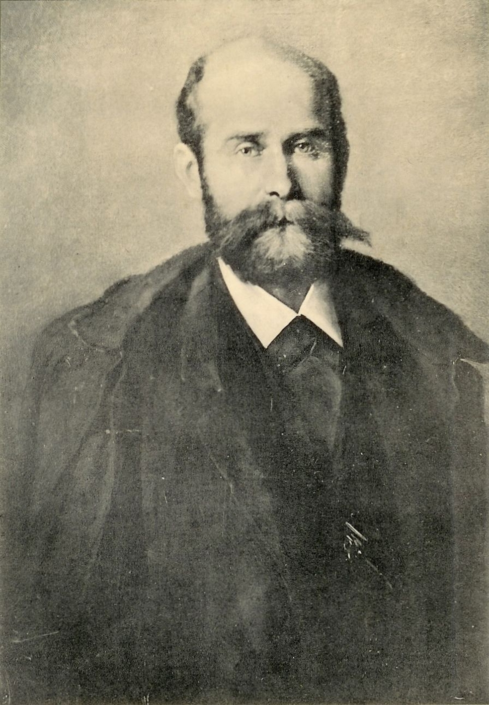 Portrait of the painter Karl Lorenz Rettich (1841-1904) after a painting of Joseph Schretter (1856-1909)